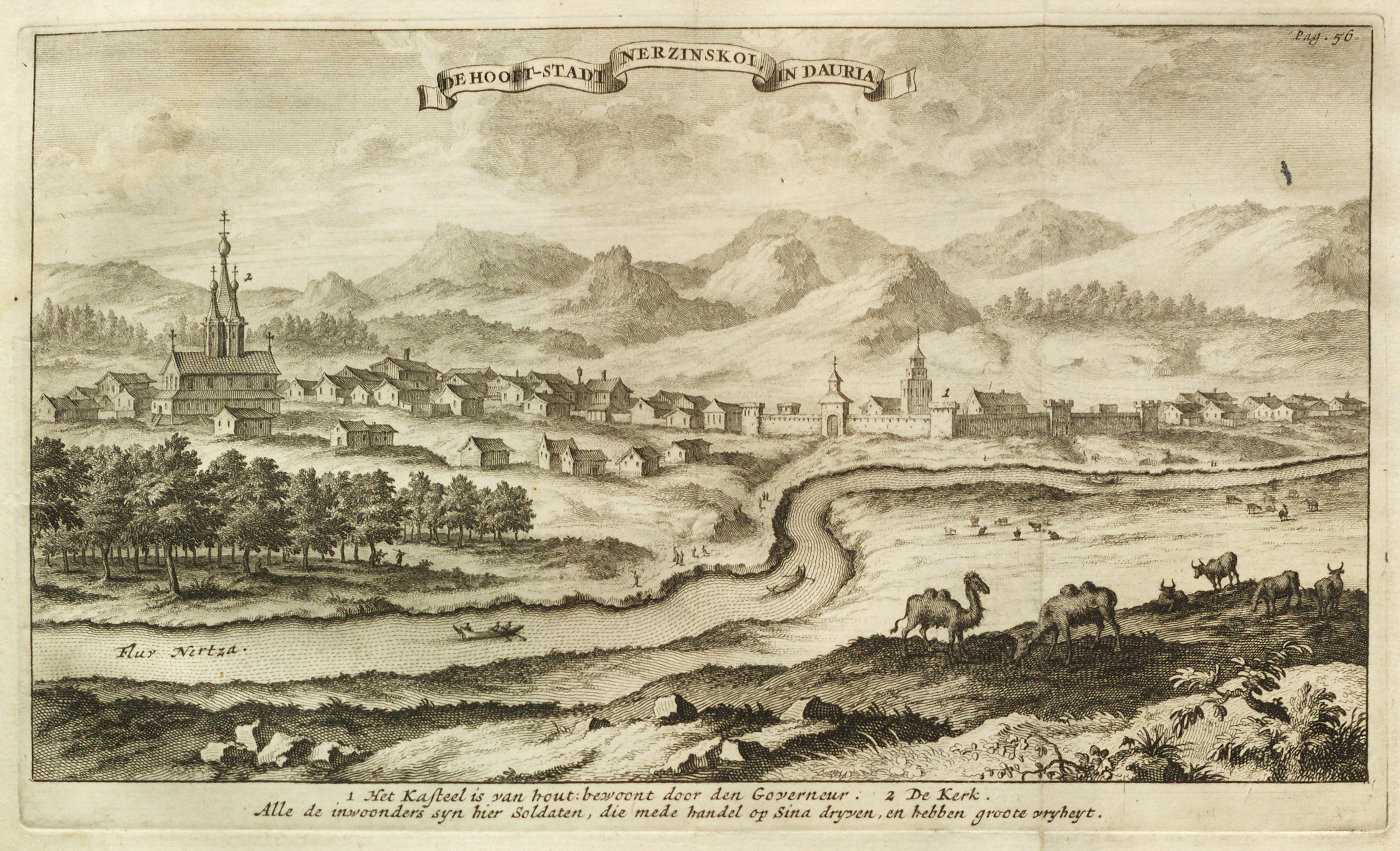 Page from Eberhard Isbrand Ides' Driejaarige reize naar China - Dutch edition from 1710.